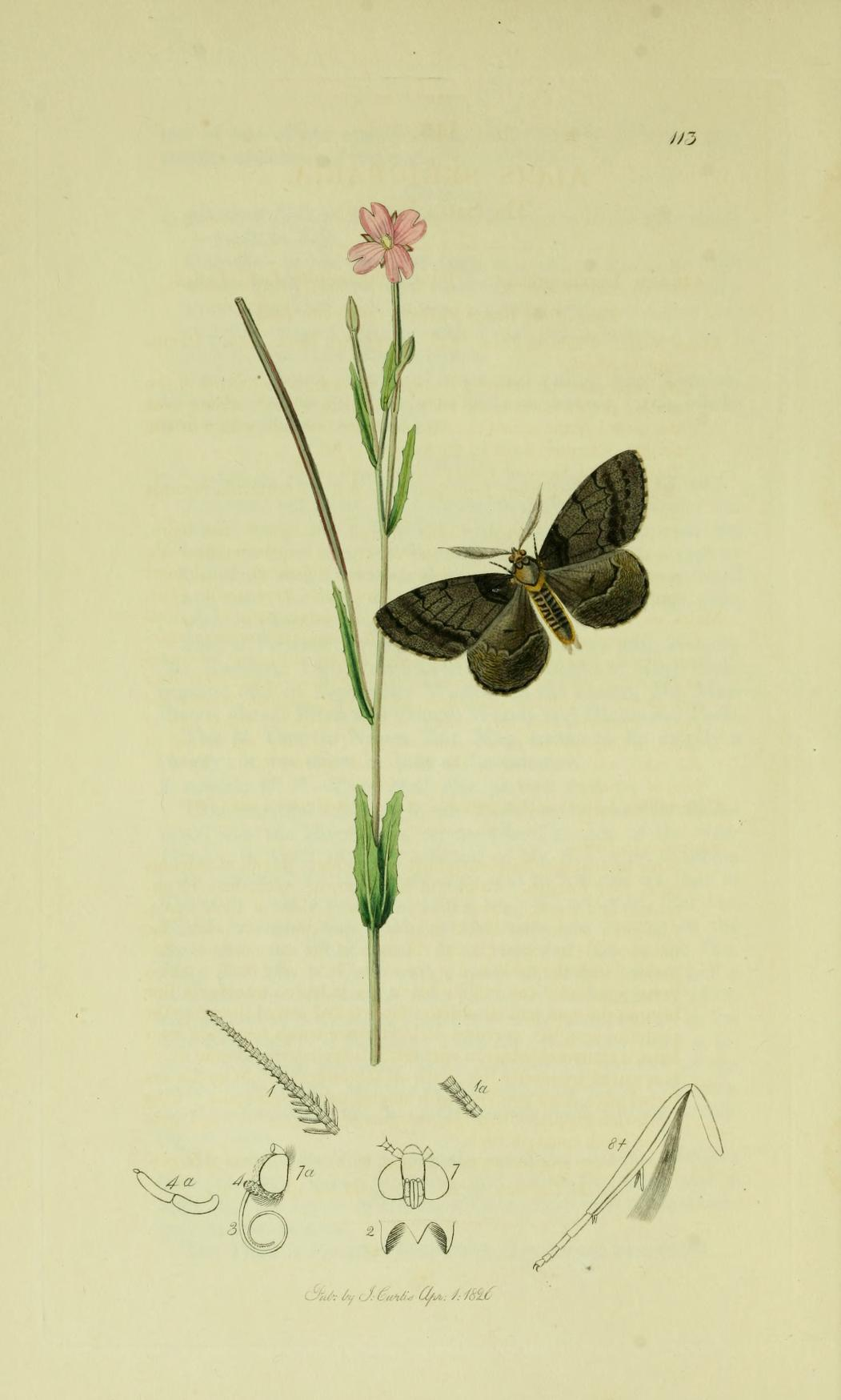 An illustration from British Entomology by John Curtis. Lepidoptera: Alcis sericea or Deileptenia ribeata (Satin Beauty).